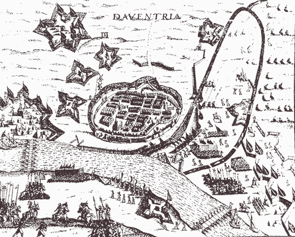 Siege of Deventer 1578